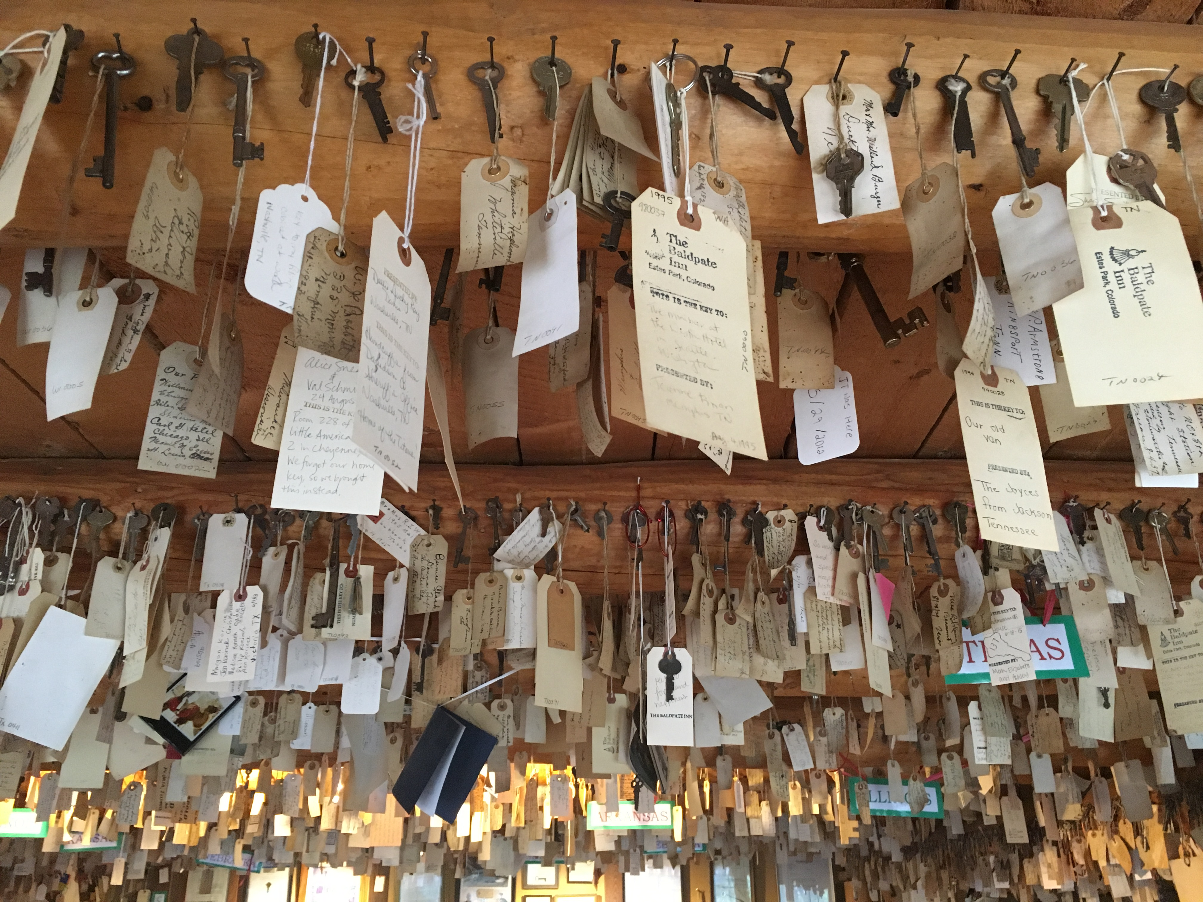 Hundreds of keys with labels are hung from the rafters in the Baldpate Inn's famous Key Room